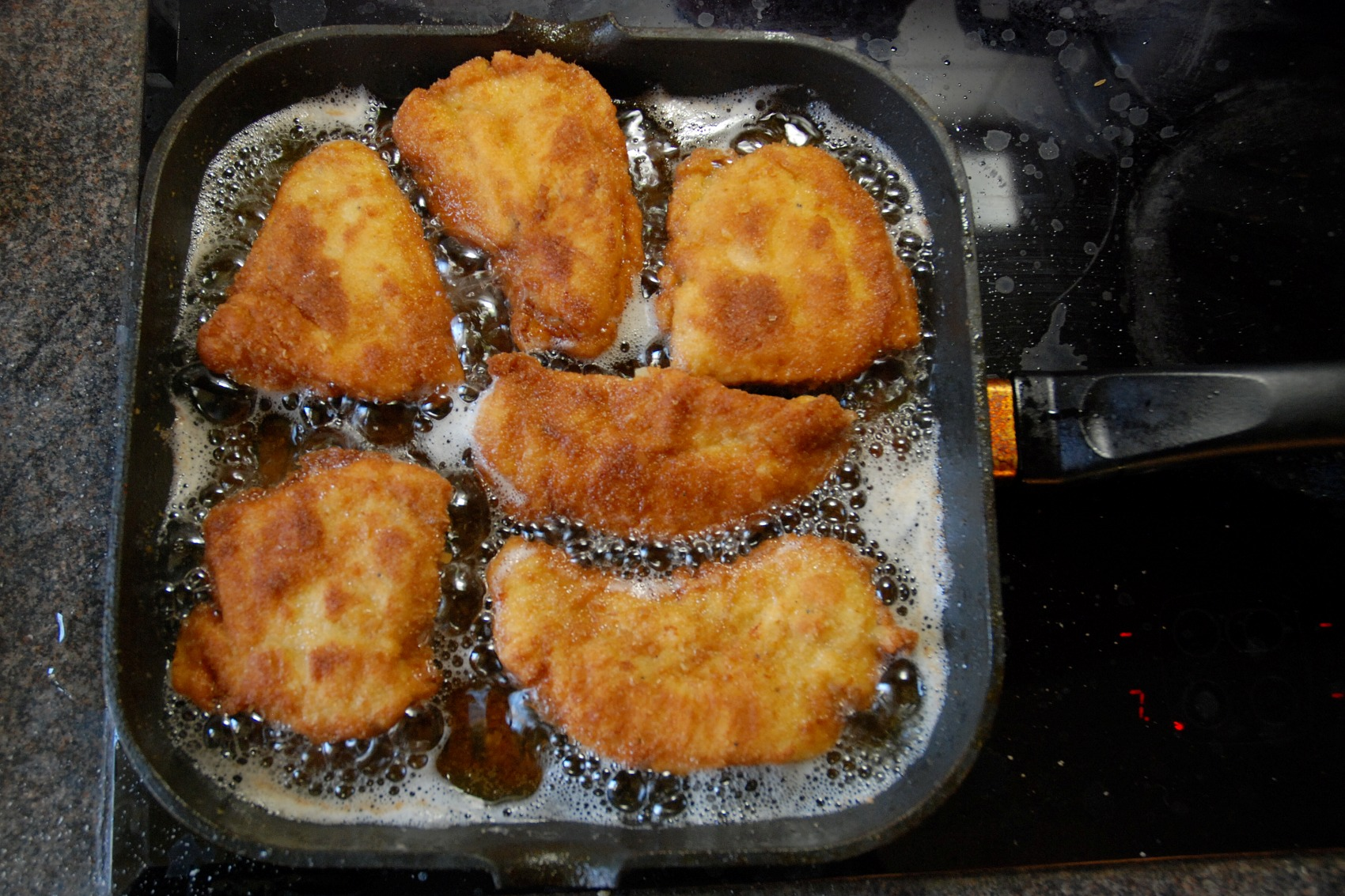 Chicken schitzels frying